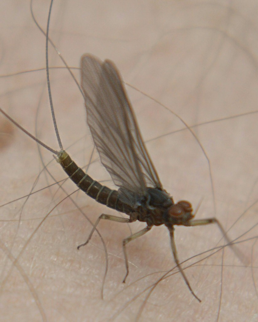 Male subimago (will be an imago or full adult after one more molt) mayfly, Baetis tricaudatus, on my arm, Española, New Mexico. Thanks to Roger Rohrbeck at for identification. Cropped for comparison with File:Baetis tricaudatus male imago.jpg.